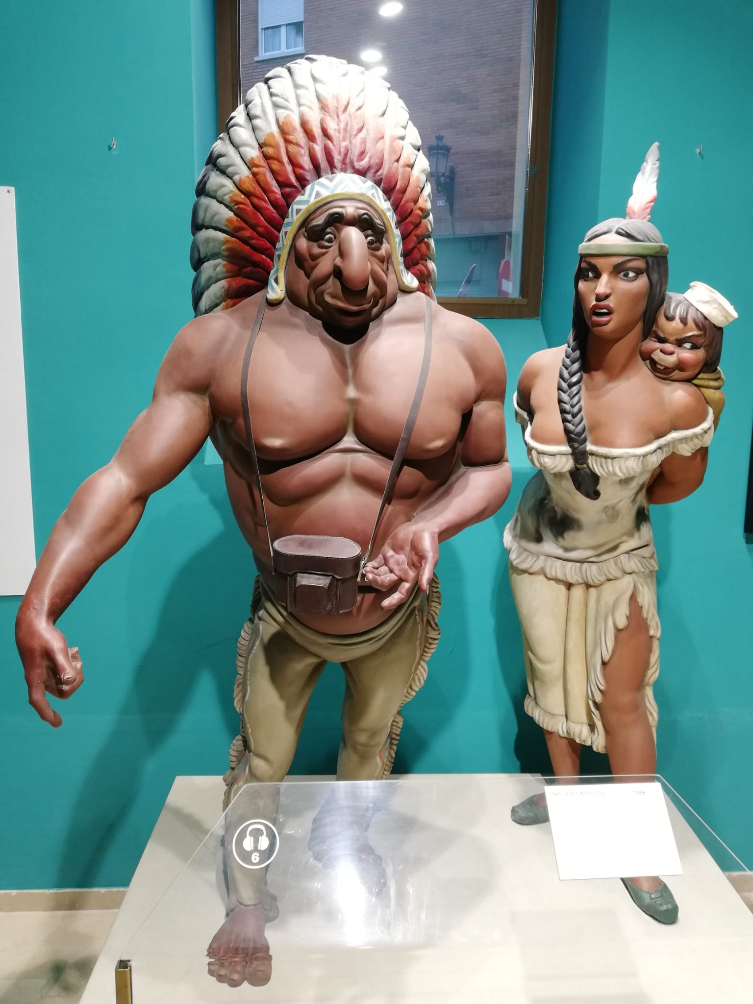 Falles de València 1957 Ninot Indultat